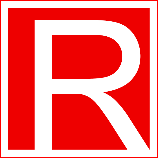 Logo of "La Riscossa", newspaper of the Communist Party (Italy)